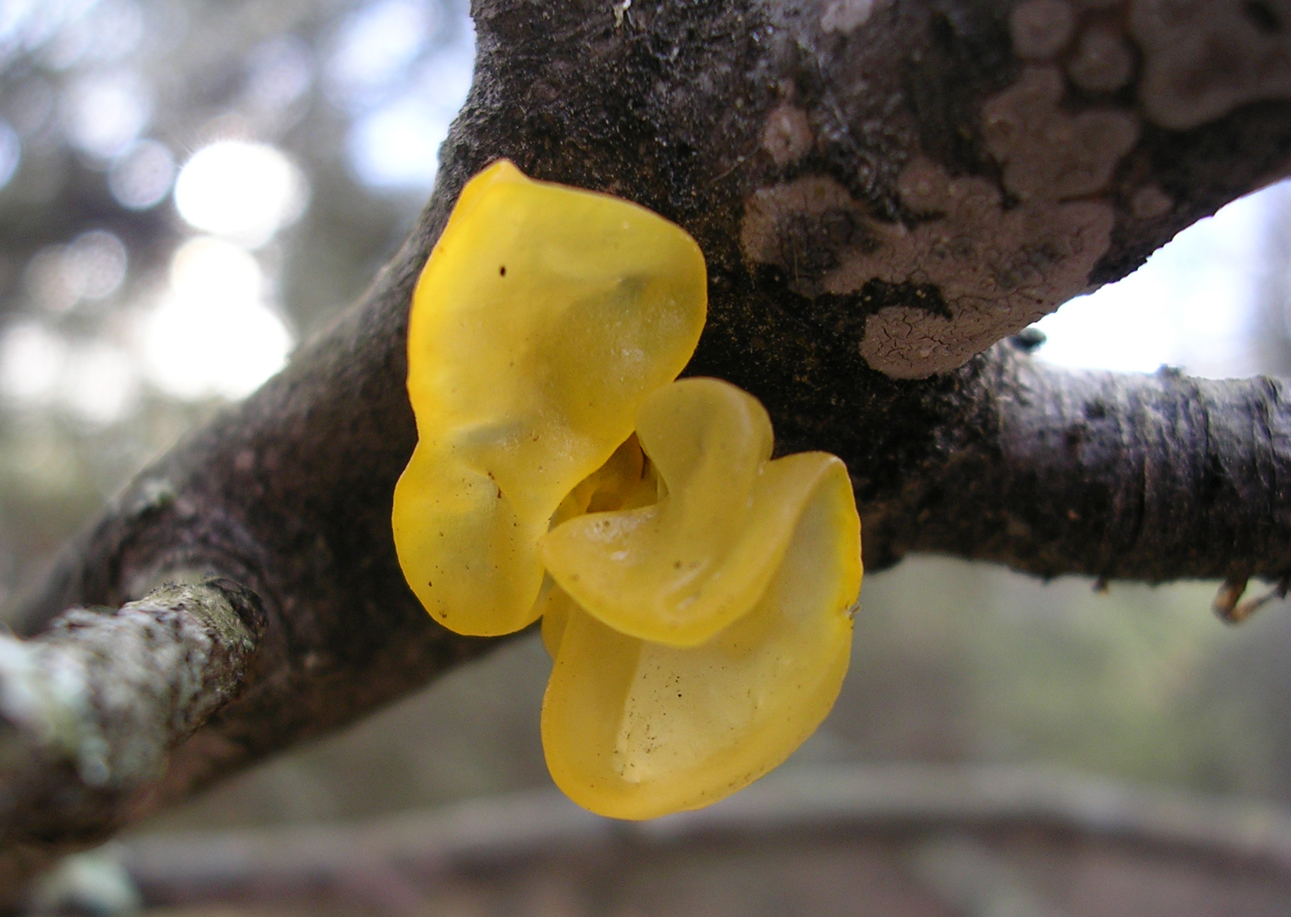 Tremella mesenterica fungus on the bottom side of a live branch. Take in Rindge, NH.